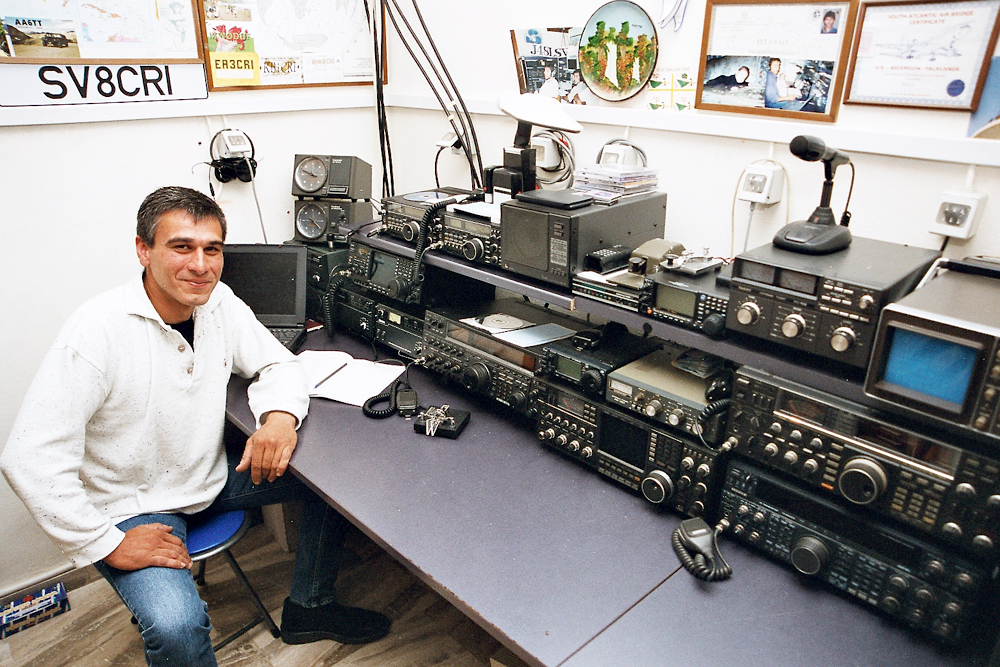 Amateur Radio station of Panos, SV8CRI in Lesbos Island, Greece.